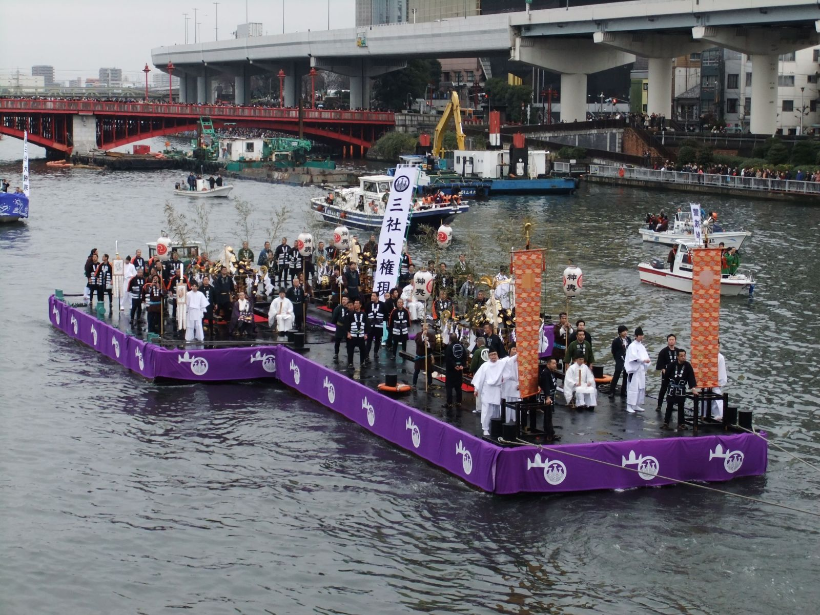 Sanja Shrine Boat Procession on the Sumida River